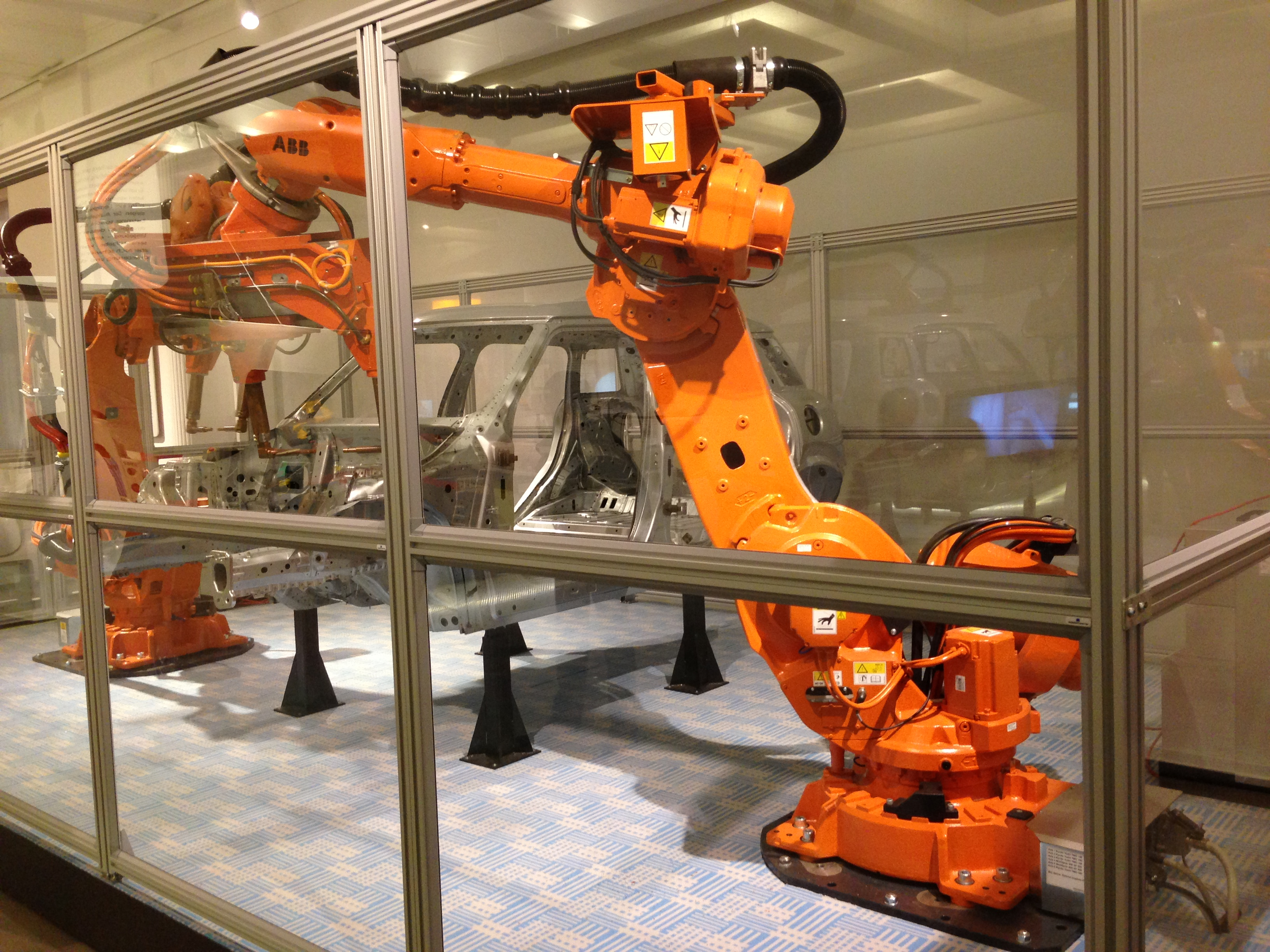 ABB industry robot at the Vienna Technical Museum